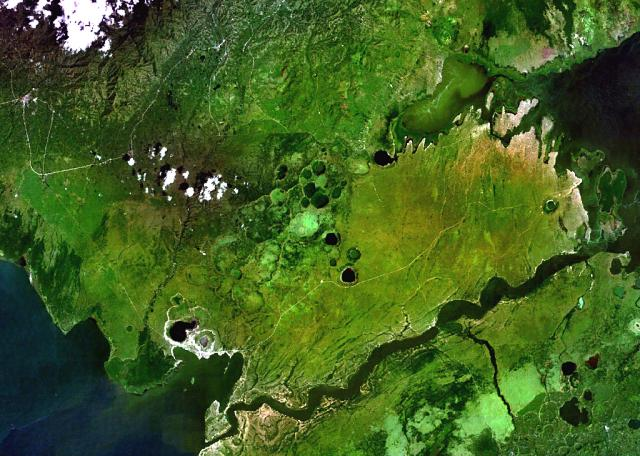 Lake-filled and dry maars of the Katwe-Kikorongo volcanic field occupy the center of this NASA Landsat image (with north to the top). The volcanic field lies above the river channel connecting Lake Edward (lower left) with Lake George (upper right) in the Western Rift Valley of Uganda. Oblong, dark-colored Lake Katwe (lower left) is a shallow 3-km-long body of water that occupies two of three intersecting craters immediately NE of Lake Edward. Local folk tales suggest that volcanism in the Katwe-Kikorongo area has continued into historical times.